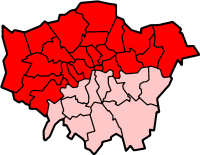 nORTH lONDON